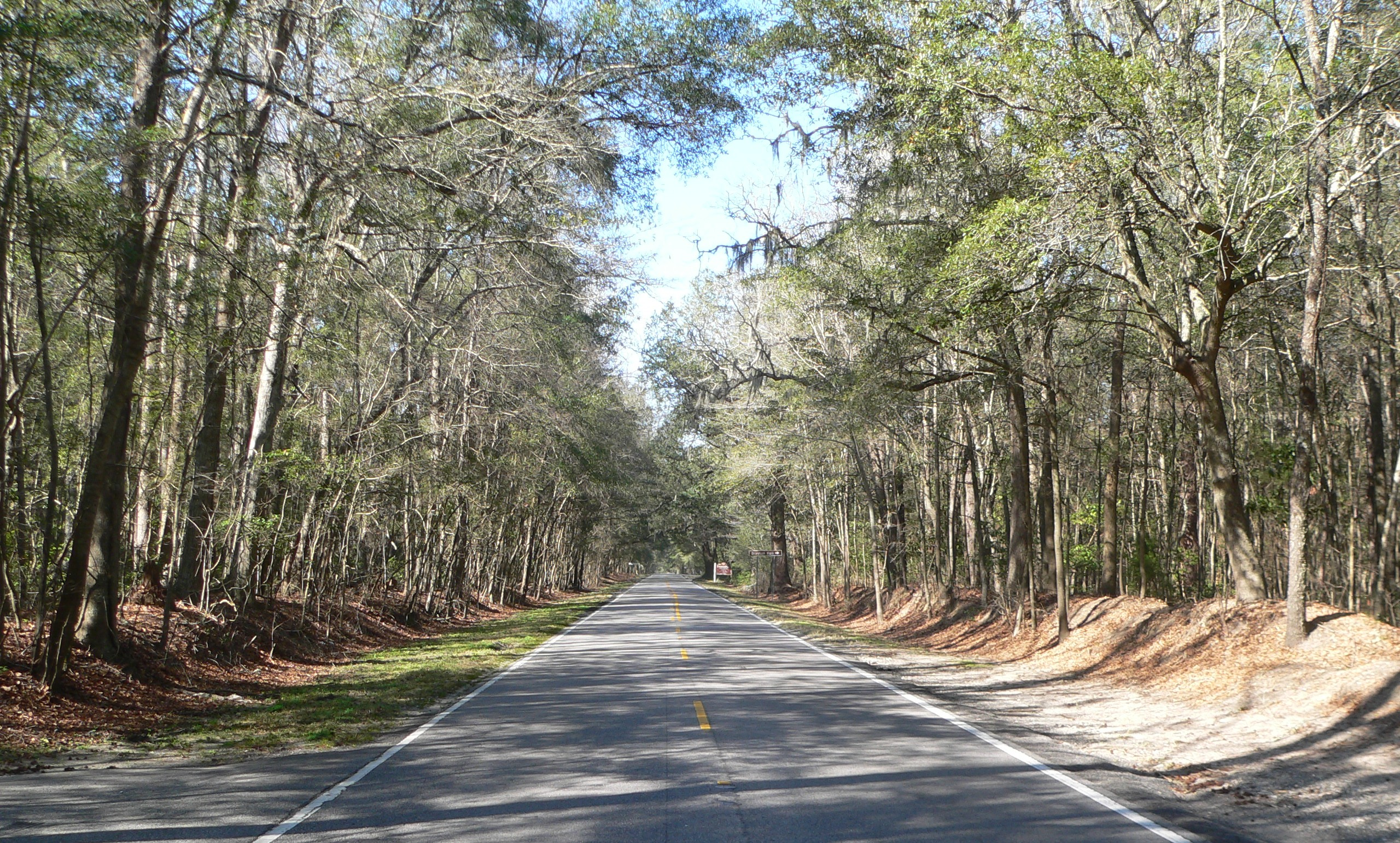 Ashley River Road (South Carolina Highway 61), 1.8 miles north of its junction with Bees Ferry Road. Camera is facing generally northward.